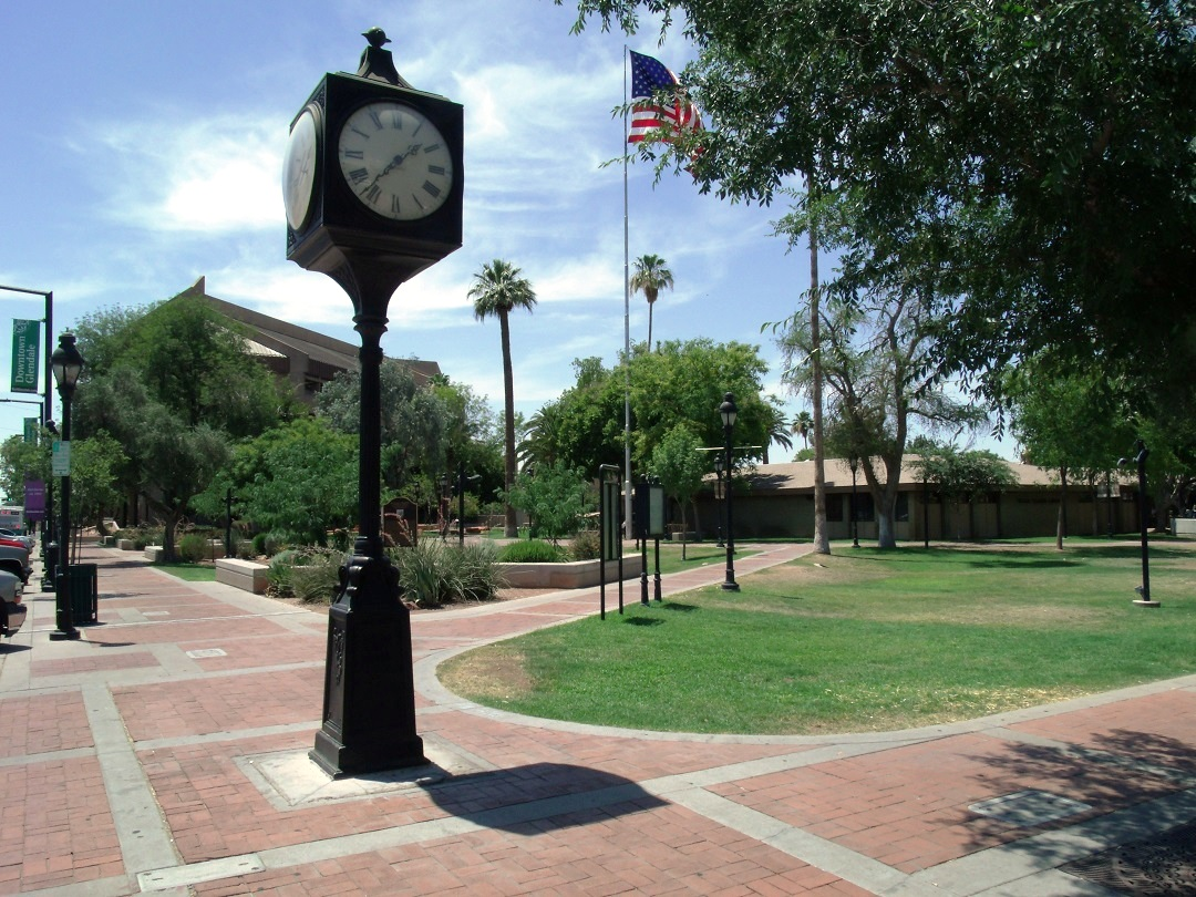 Picture of Murphy Park named after William John Murphy, founder of the city of Glendale, Arizona in 1912. The town clock (pictured) was dedicated in 1987 and is dedicated to the memory of Thelma Renick Heatwole (1912-1991), who covered life in the Glendale community for more than 40 years as a newspaper reporter. The park is located at 58th & Glendale Avenues and has a public library.